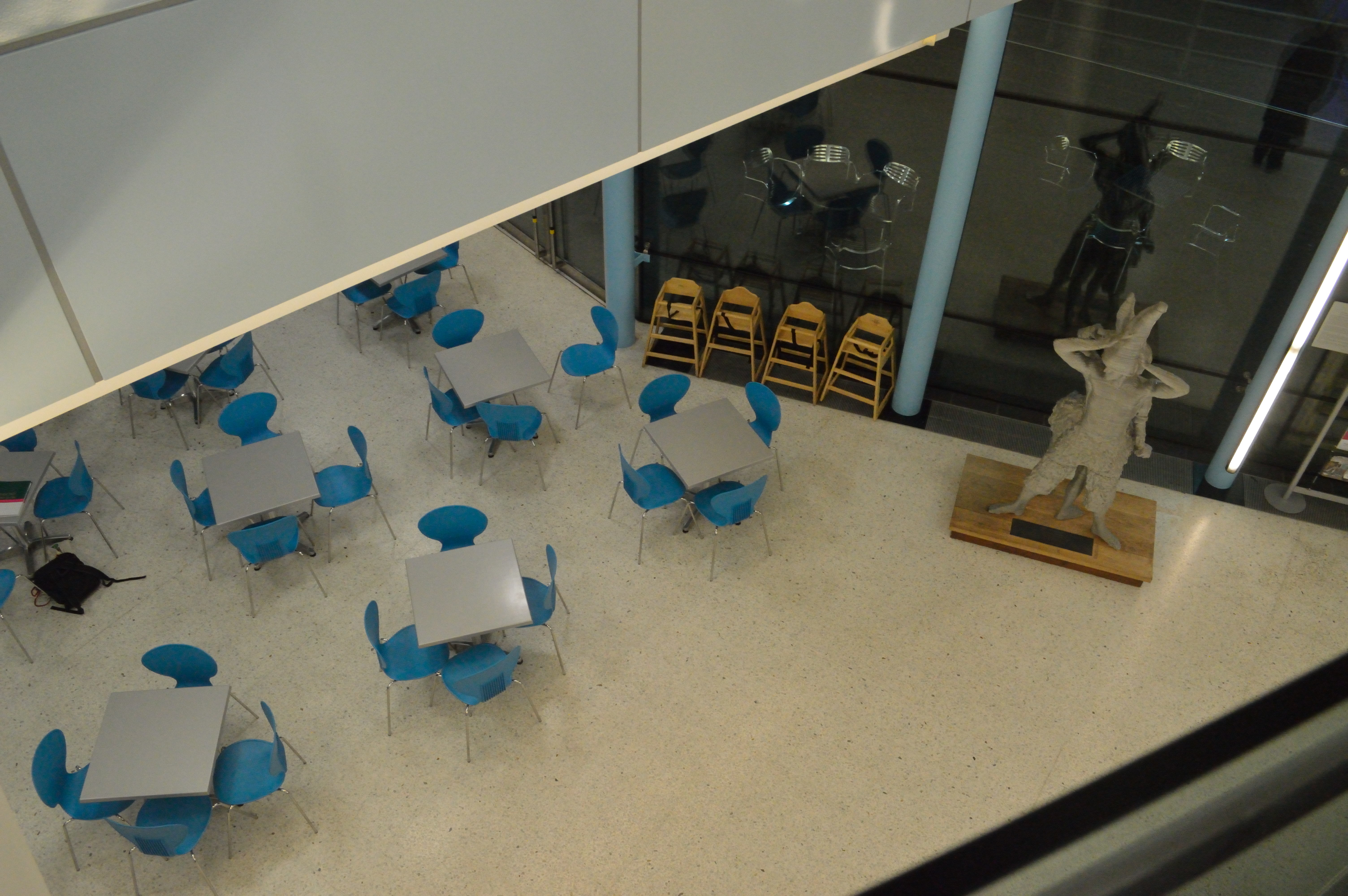 Seating in the Riverfront arts centre cafe, Newport, from balcony above.